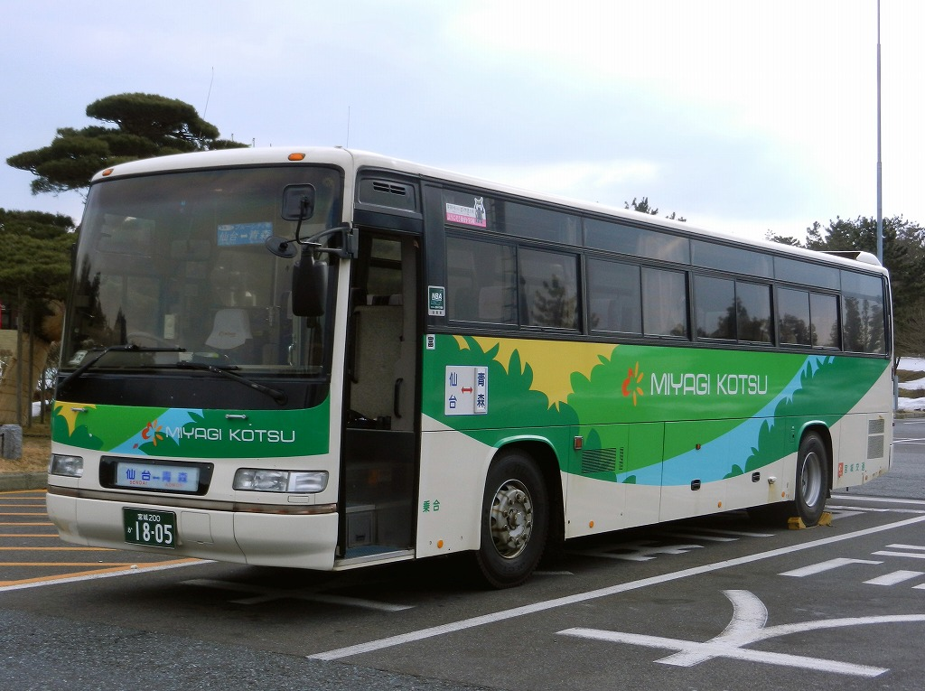 Miyagi Kotsu (Tomiya) Hino S'elega (KC-RU3FSCB)highwaybus "Bluecity"(Sendai-Aomori)